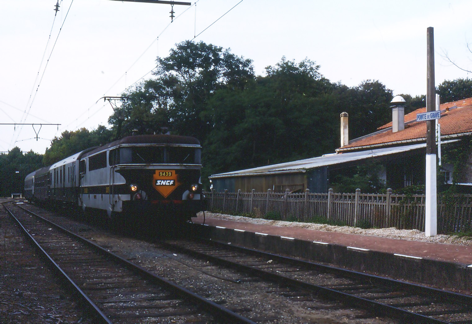 Mixed traffic locos operating on the 1500V dc lines and were painted in a distinctive brown livery not found on any other SNCF locos. This photo was taken at Point-de-Grave on 26 July 1990. This electrified branch from Bordeaux was covered one way by EMU which included a reversal at Bordeaux St Louis station. Running as far as Le Verdon, I then planned to walk (or find a taxi) for the remaining 3 kms. It was here I asked the drivers of the light loco BB9439 seen in this photo which was stabled there. As luck would have it i was invited up to the cab of the loco and given a lift to Point-de-Grave. The loco then coupled up to the stock to form two through coaches (one seated, one couchette) through to Bordeaux-St-Jean. From Bordeaux the coaches attached onto more stock to form a through train to Paris Austerlitz. Train 4668, 20:23 Pointe-de-Grave to Paris Austerlitz.